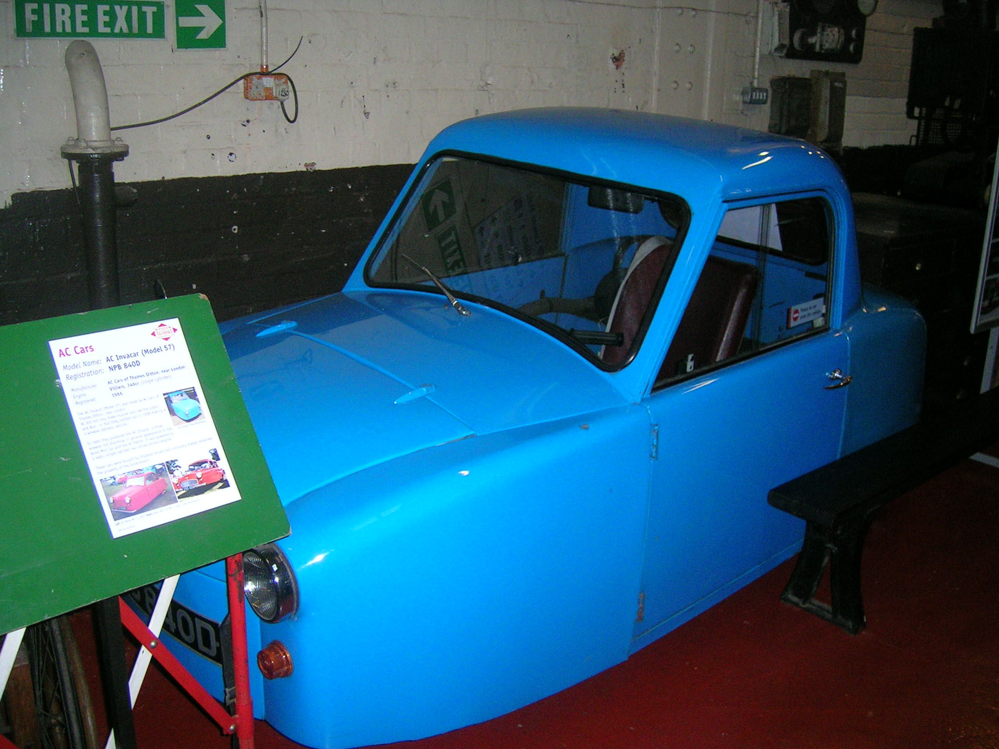 A three wheeled AC Invacar in the Museum of Transport in Manchester